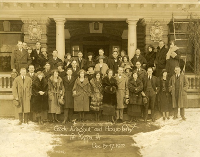 Party-goers pose in front of the Phi Kappa Psi Fraternity house during the 1922 Greek Swingout weekend, second of the fall social weekends at Washington & Jefferson College.